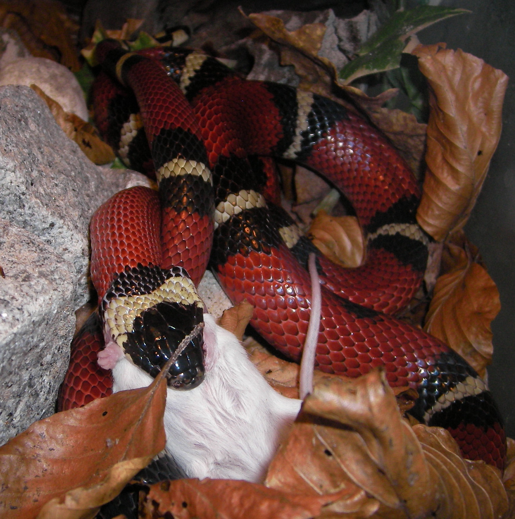 Sinaloan milk snake (Lampropeltis triangulum sinaloae)